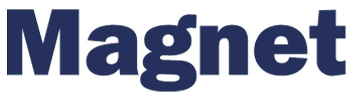 Wordmark of Magnet, Trademarked by Magnet Limited